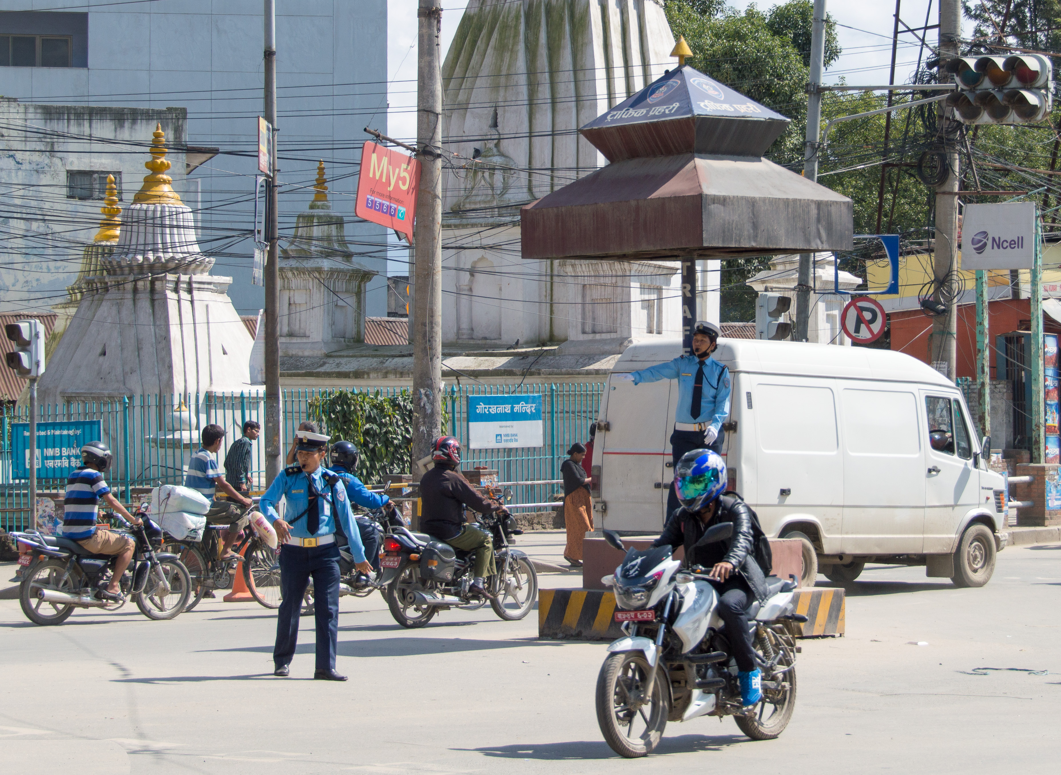 Traffic-controllers / Kathmandu, Nepal